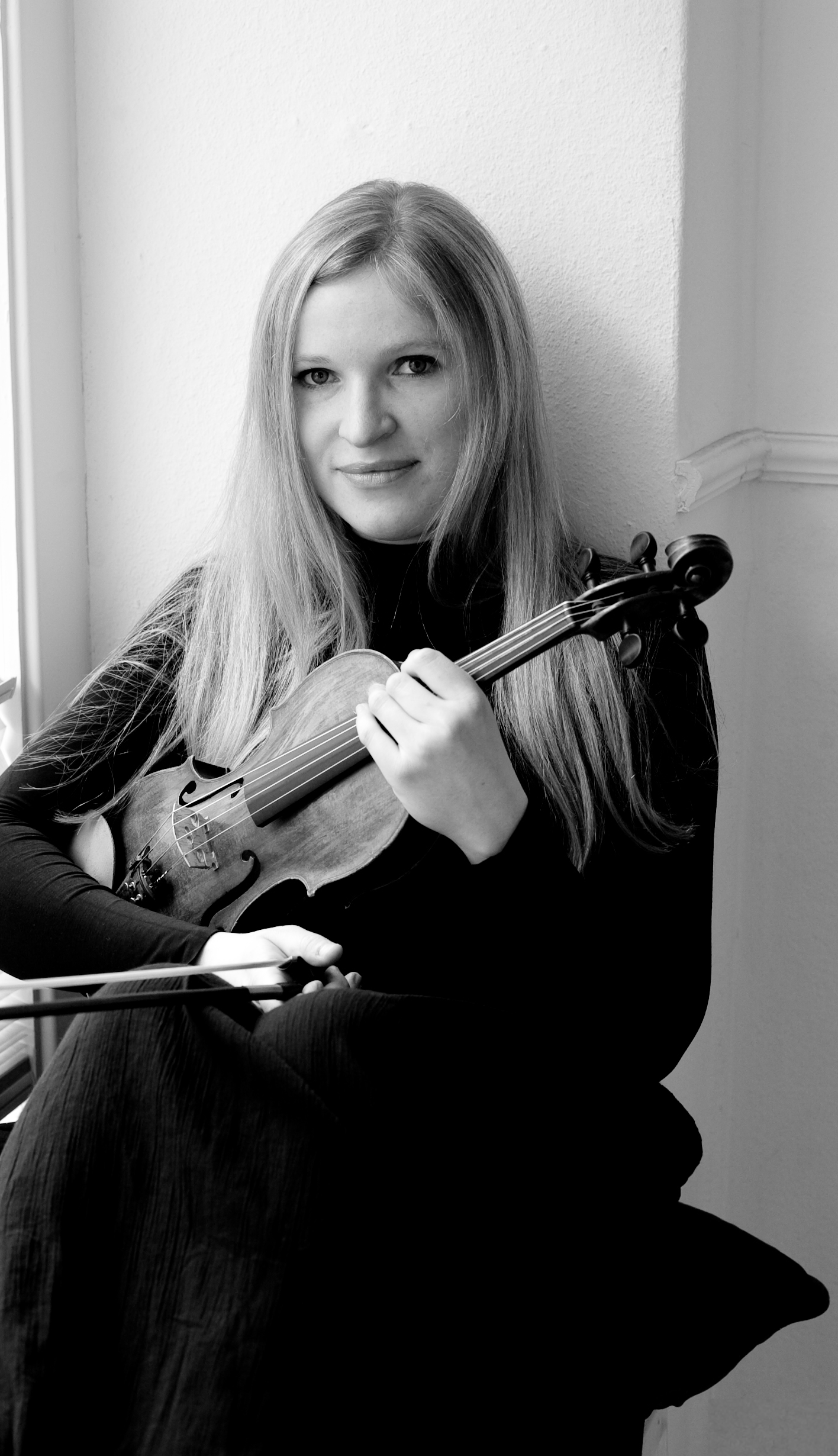 Ewelina Nowicka, 2010 Photographer: Steffen Gottschling